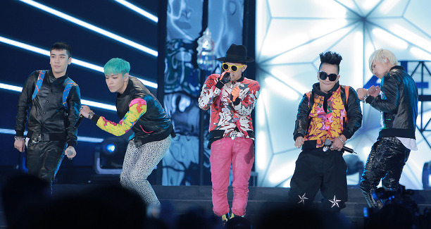 BIGBANG in K-Collection fashion show 2012